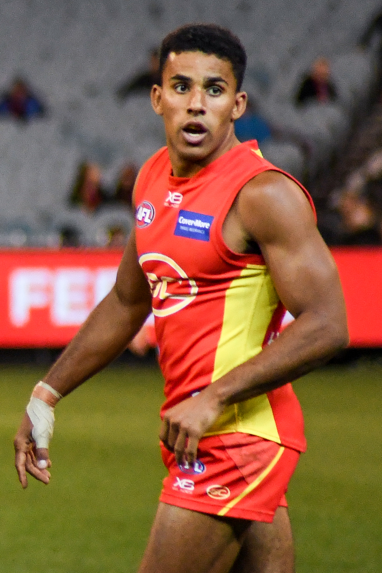 Touk Miller of Gold Coast during the 2018 AFL round 20 match between Melbourne and Gold Coast at the Melbourne Cricket Ground on Sunday, 5 August 2018 in Melbourne, Victoria.